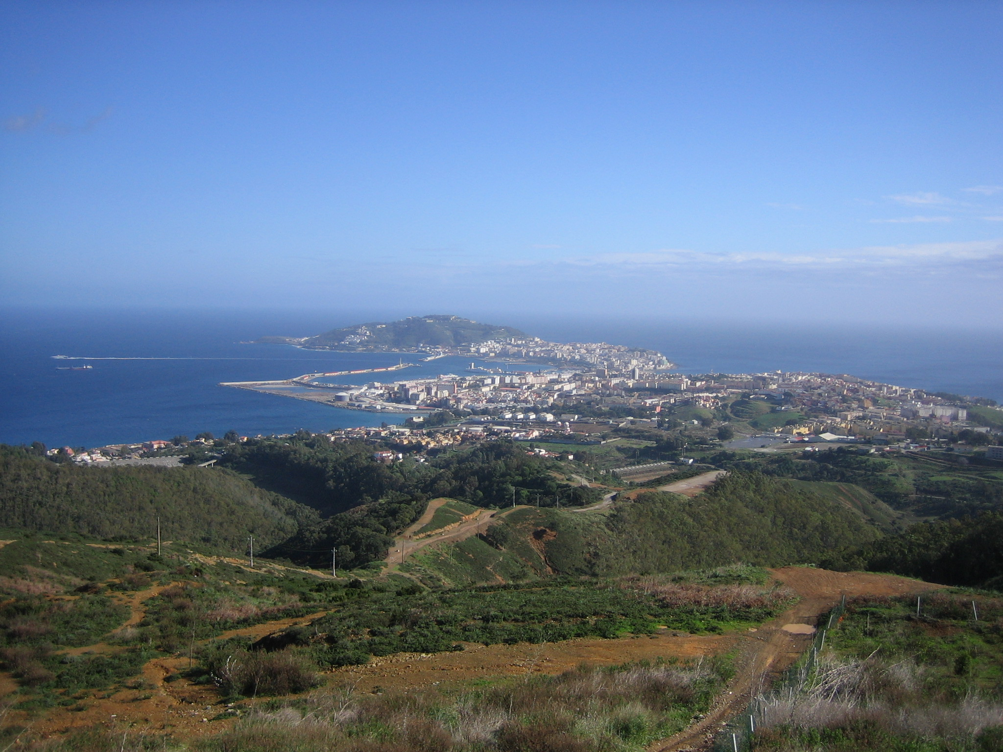 Ceuta, Spain